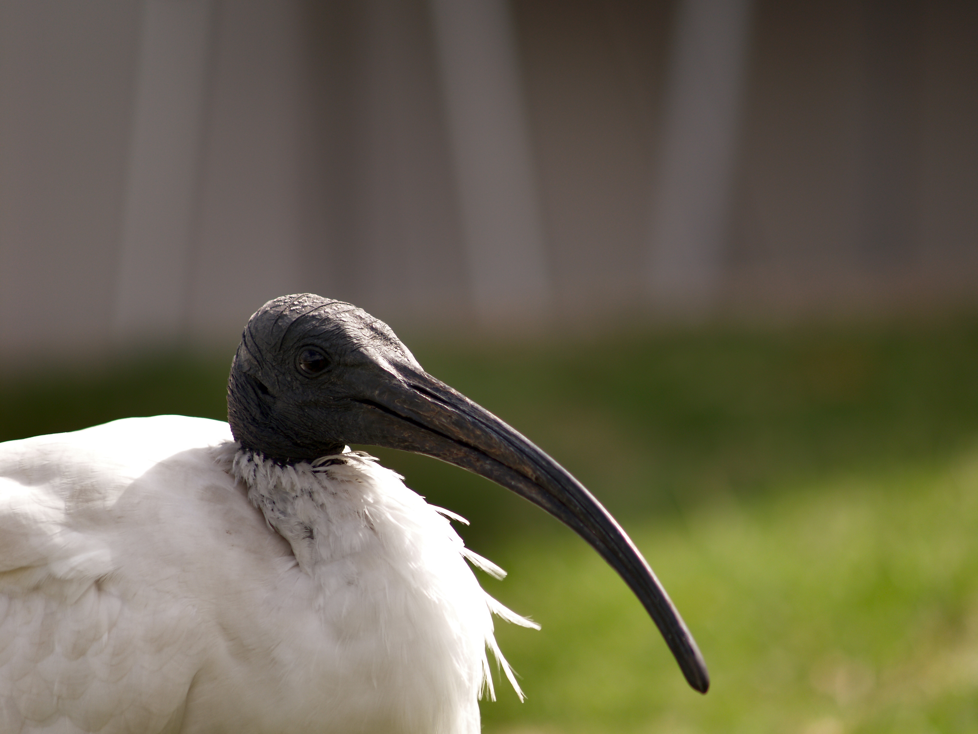 Close up of an Australian White Ibis (Threskiornis molucca)